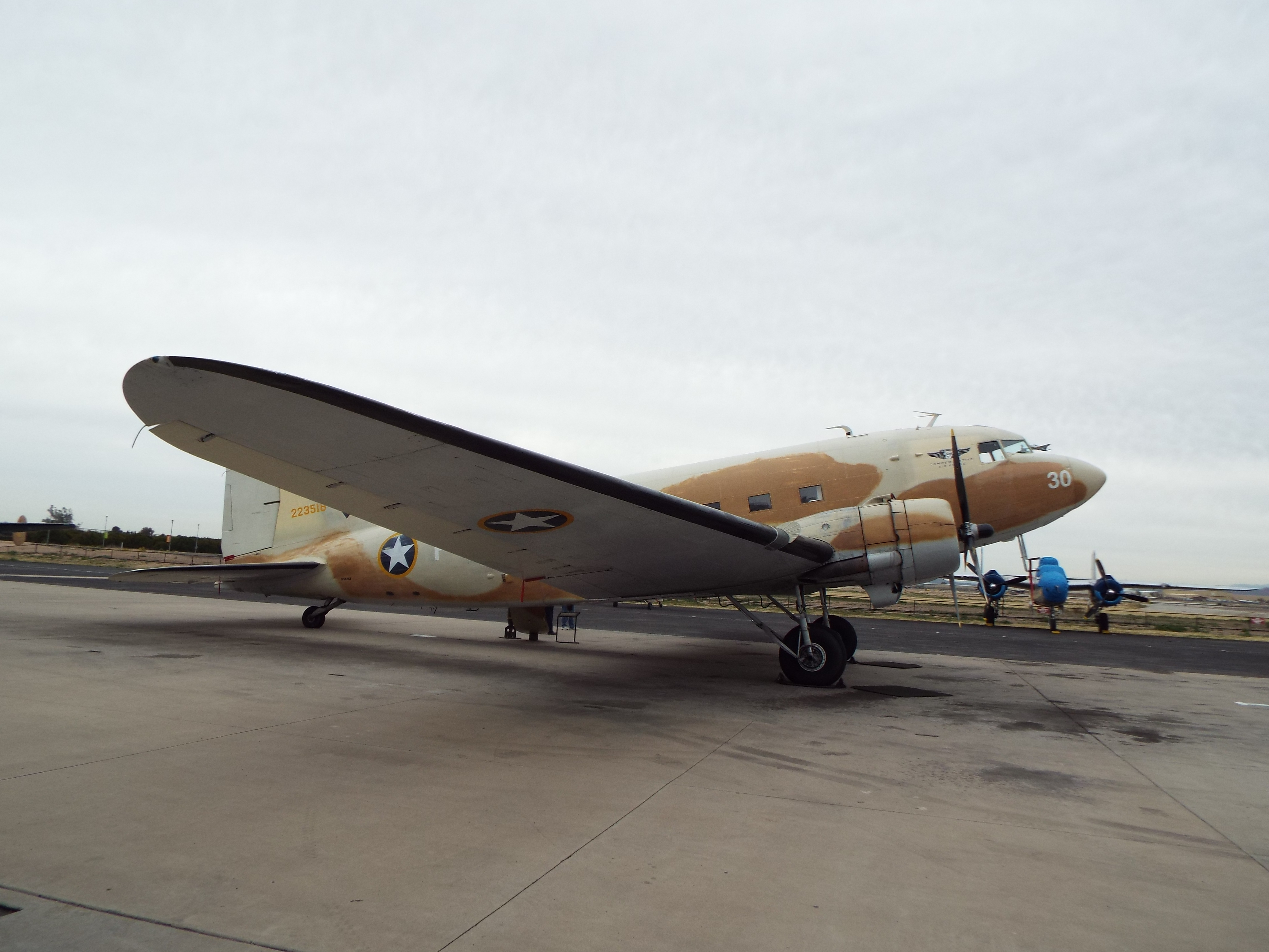 Mesa-Arizona Commemorative Air Force Museum-Douglas C-47 Skytrain Dakota “Old Number 30”